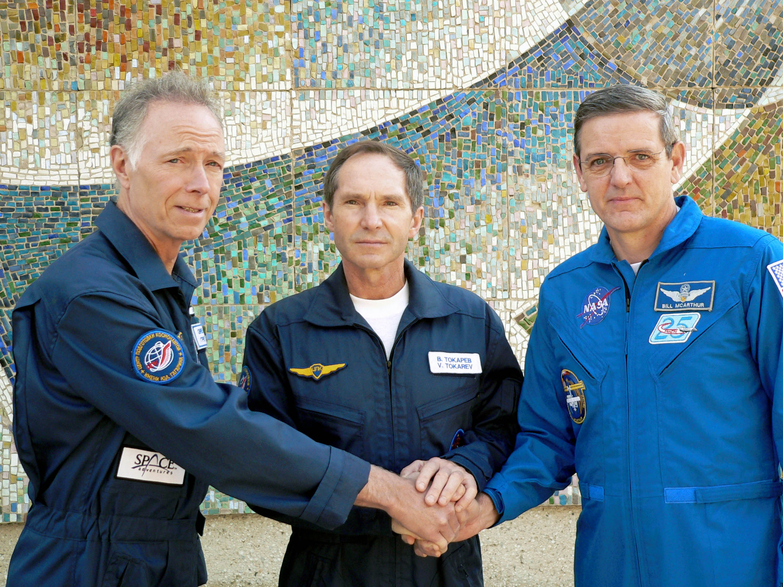 The crew of spacecraft Soyuz TMA-7. From left : Gregory Olsen (USA), Valery Tokarev (Russia), William McArthur (USA) NASA description: Expedition 12 Commander William S. McArthur, Jr. (right), Flight Engineer and Soyuz Commander Valery I. Tokarev (center) and U.S. Spaceflight Participant Gregory Olsen pose for a handshake at the Cosmonaut Hotel in Baikonur, Kazakhstan Sept. 20, 2005 as they prepare for their launch October 1 to the International Space Station on the Soyuz TMA-7 spacecraft.